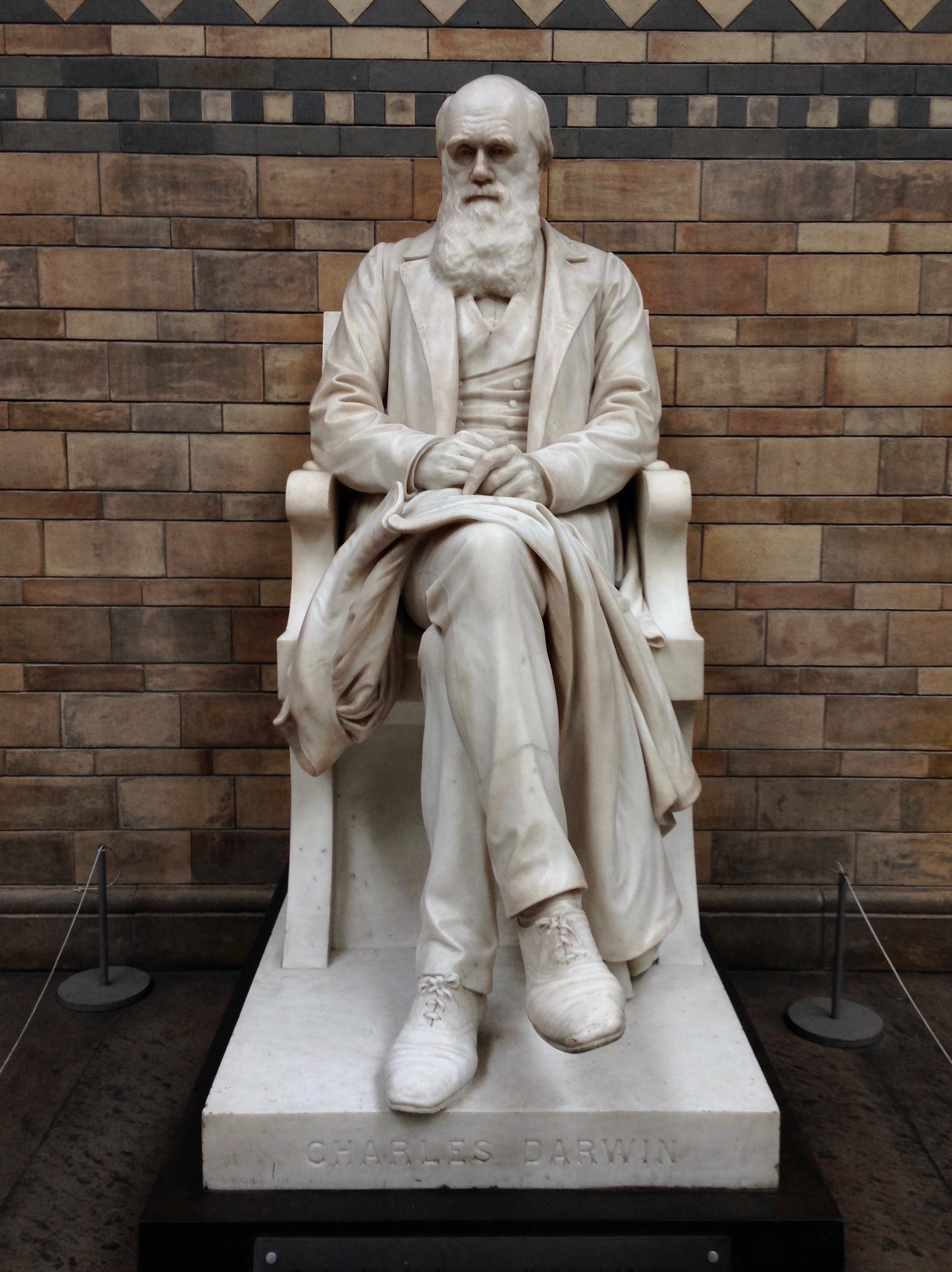 Statue of Charles Darwin in the Natural History Museum, London. The statue was created by Sir Joseph Boehm and was unveiled on 9 June 1885.